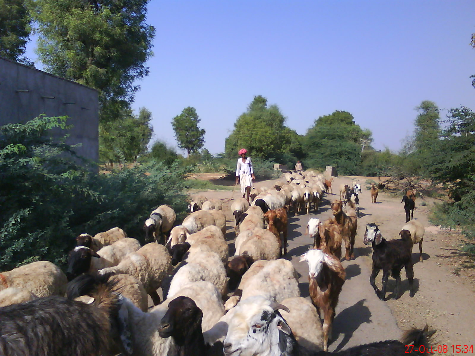 A rabari with his cattles in a village of Jalore district of Rajasthan.